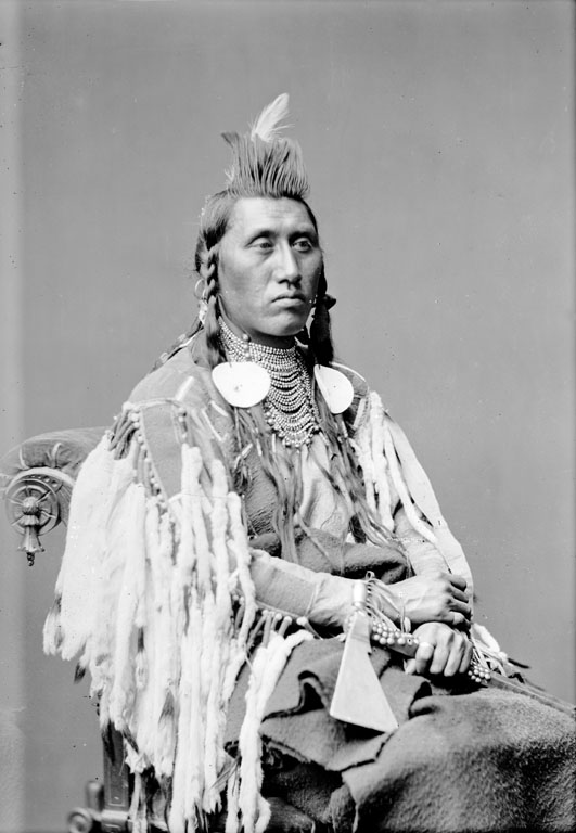 Photograph of Crow Indian chief Pretty Eagle